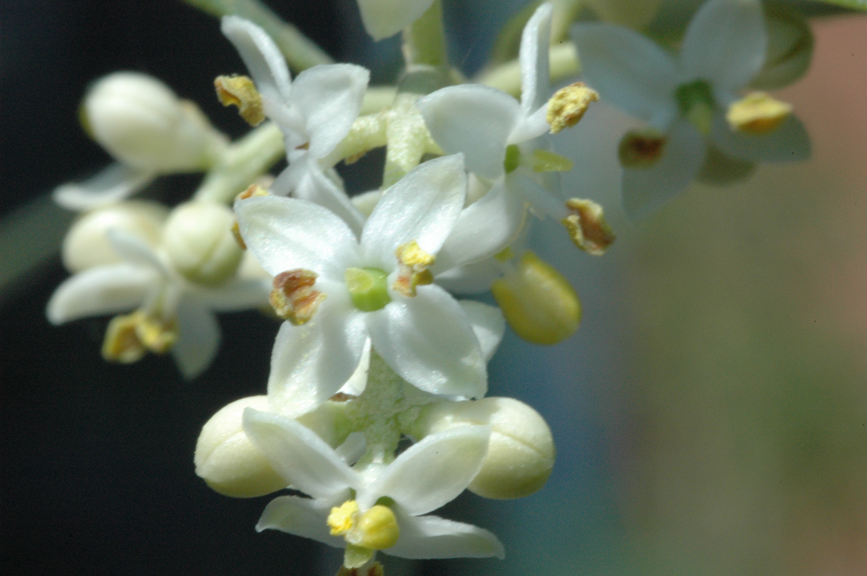 Olive flower